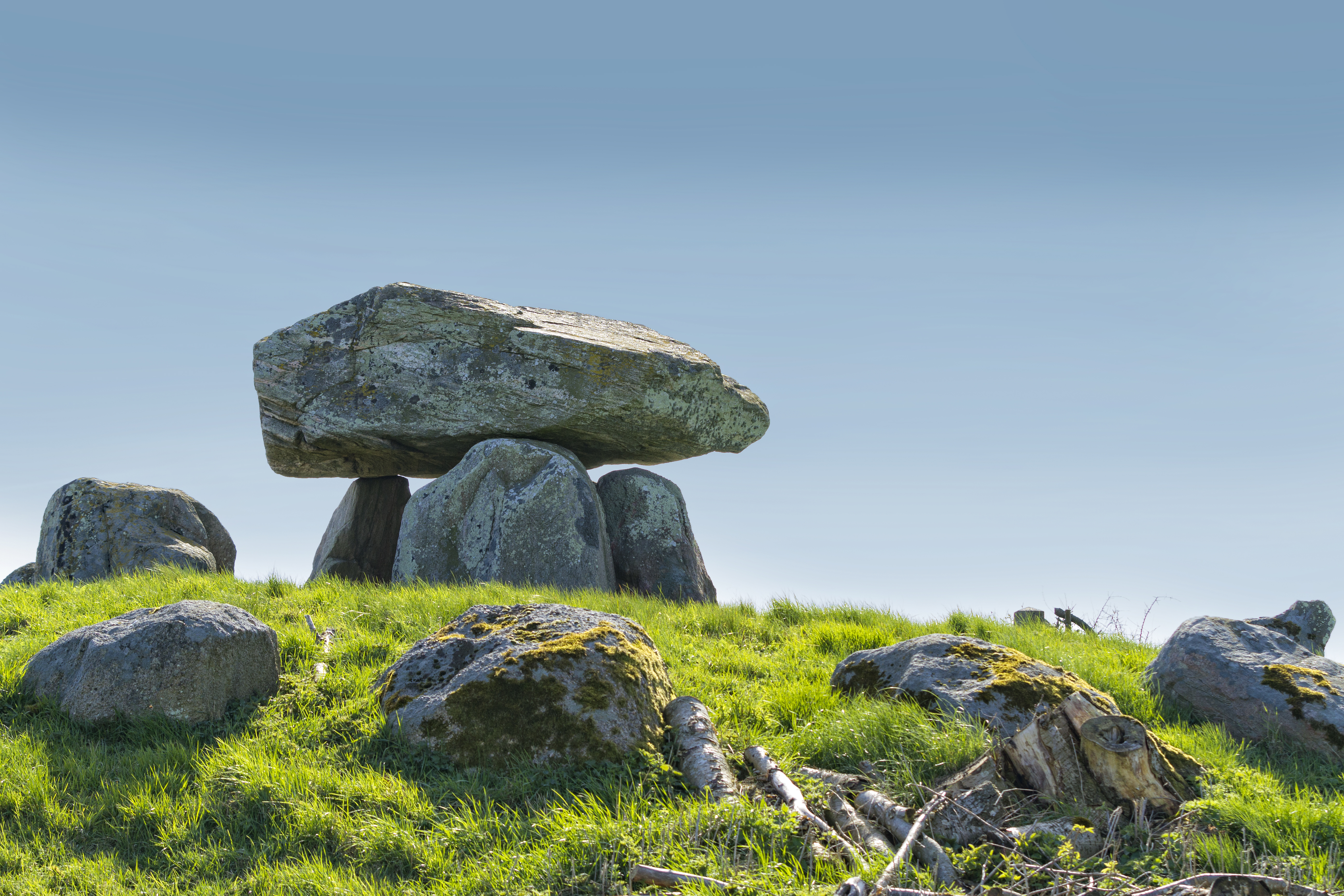 Langdyssen is located in an absolutely beautiful place right in the middle of some of the most beautiful landscape we have in Denmark. It has been preserved since 1937 but has been there for many years, dating from 3950 - 2801 before the birth of Christ. The long nozzle is 15 meters long, 8 meters wide, approximately in the middle of the long nozzle is an excavated chamber at once, the chamber is 2 x 1.57 meters, formed by 5 high bricks, 1 missing. Grass in the fields with a few trees. To the southeast a short walk with a stone for each side. 20 curbs (of which 5 are standing, the rest overturned.) On the mound 2 multi-stemmed trees, Other grass and arable land.